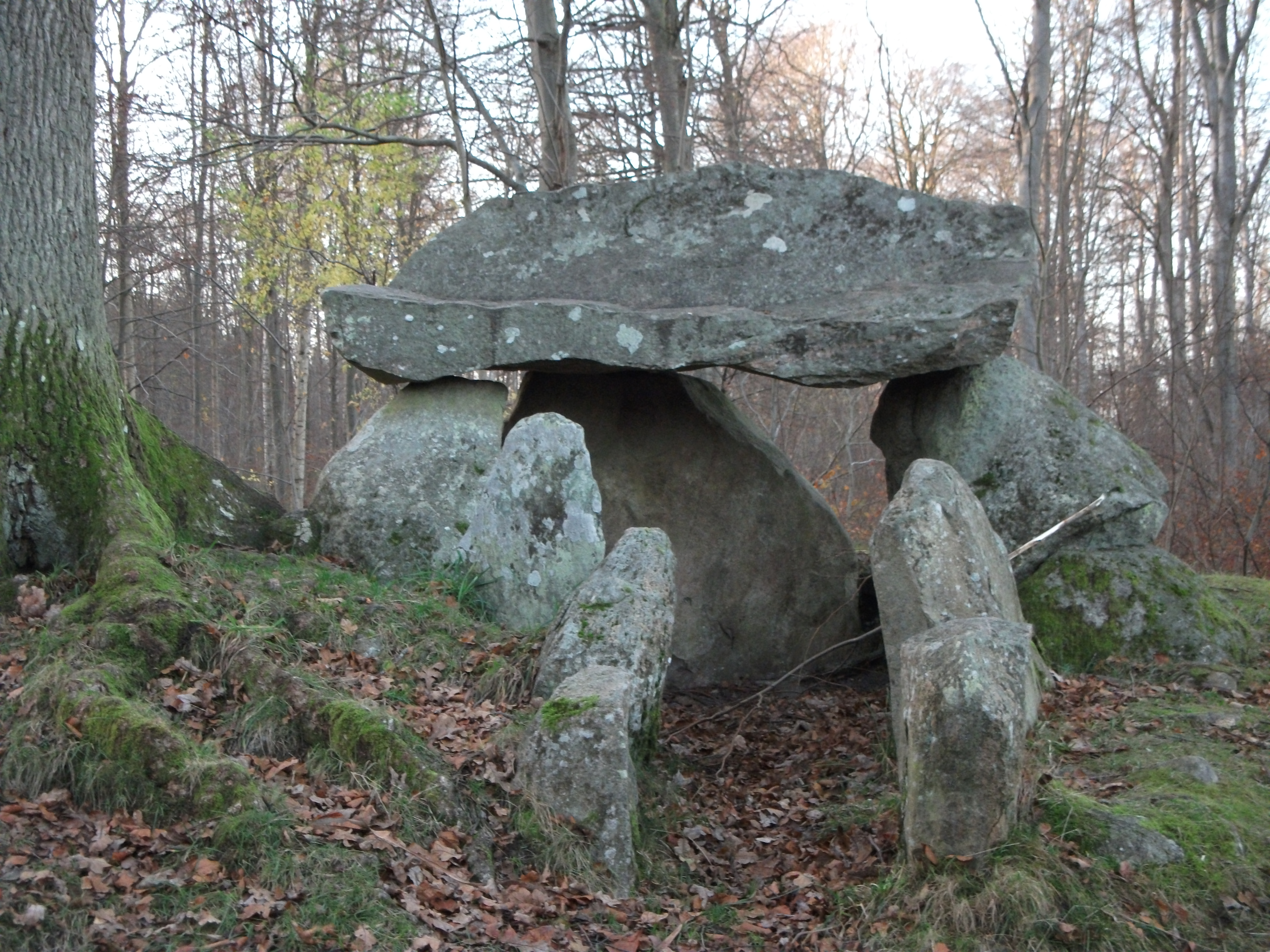 Passage grave in Greving forest, Denmark